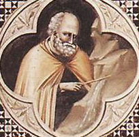 as in Numbers 20:2-13